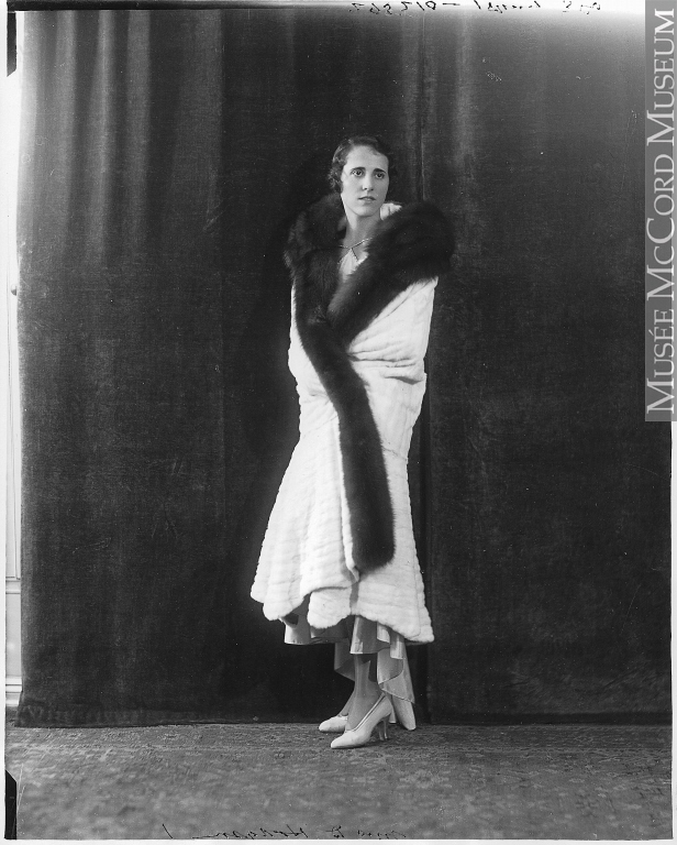 Photograph Mrs (Hylda Ross) Duncan McIntyre Hodgson Montreal, QC, 1929 Wm. Notman & Son 1929, 20th century Silver salts on glass - Gelatin dry plate process 25 x 20 cm Purchase from Associated Screen News Ltd. II-292510 © McCord Museum